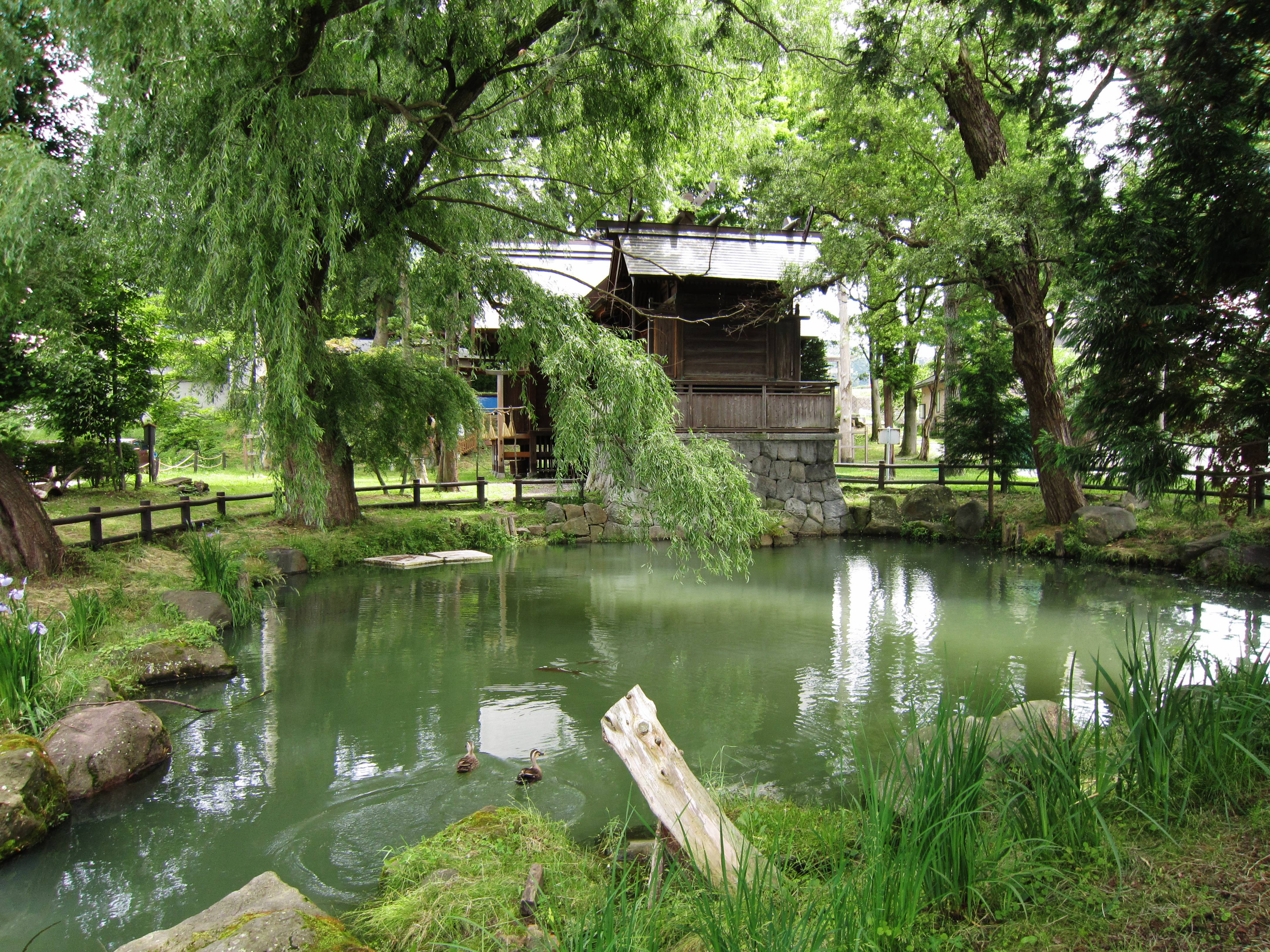 Kuzui-jinja pond.